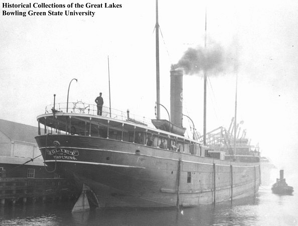 The steamer Joliet prior to her sinking